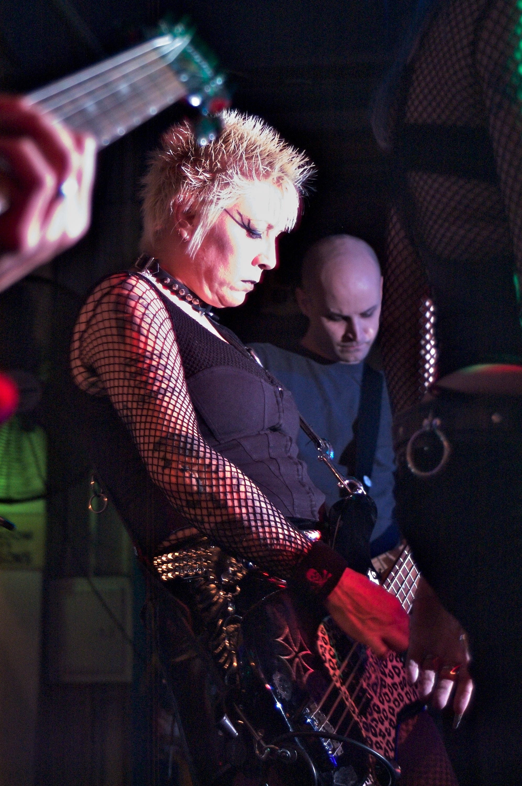 Lisafer (Lisa Pifer), bassist for death rock band 45 Grave, at Bats over Broadway, Blue Cafe, Long Beach, California, USA